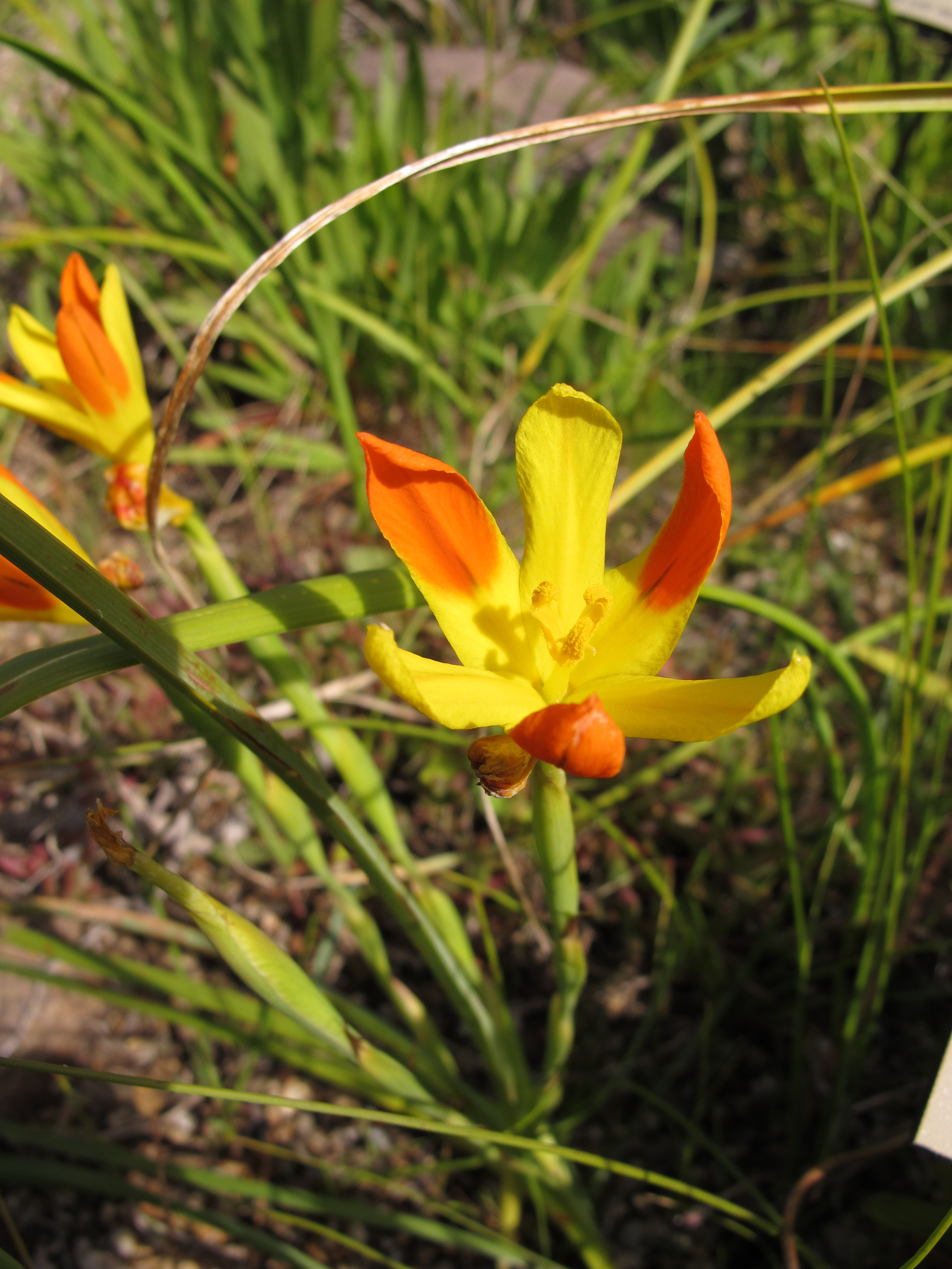 University of California Botanical Garden at Berkeley, California, USA.